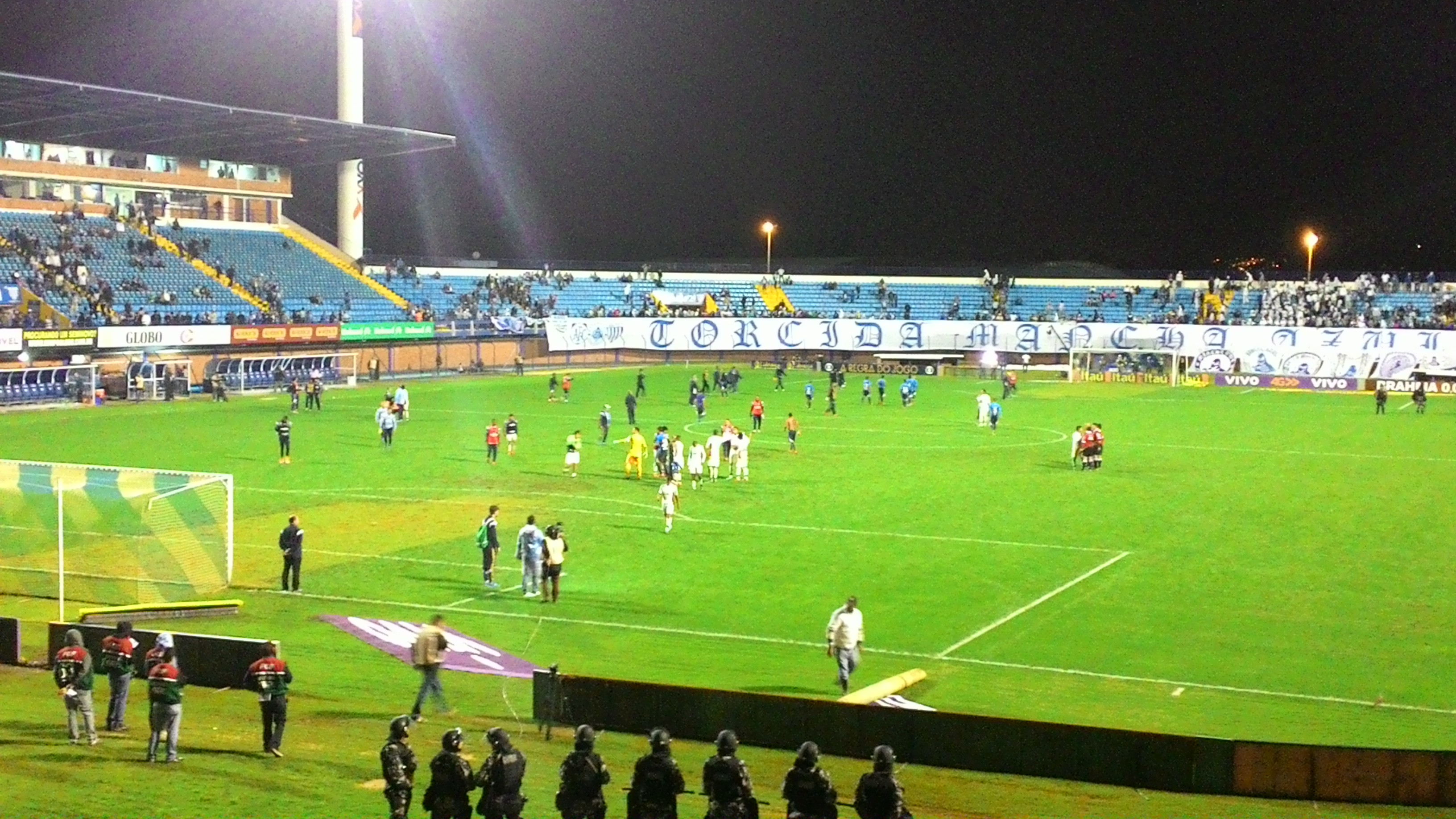 Avaí vs. Palmeiras - 2015 Campeonato Brasileiro Série A - October 17